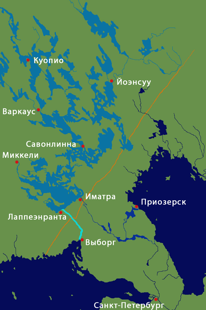 Map of GreatSaima Lake, Vuoksi river and Saimaa Canal and Main City in Russian lang.